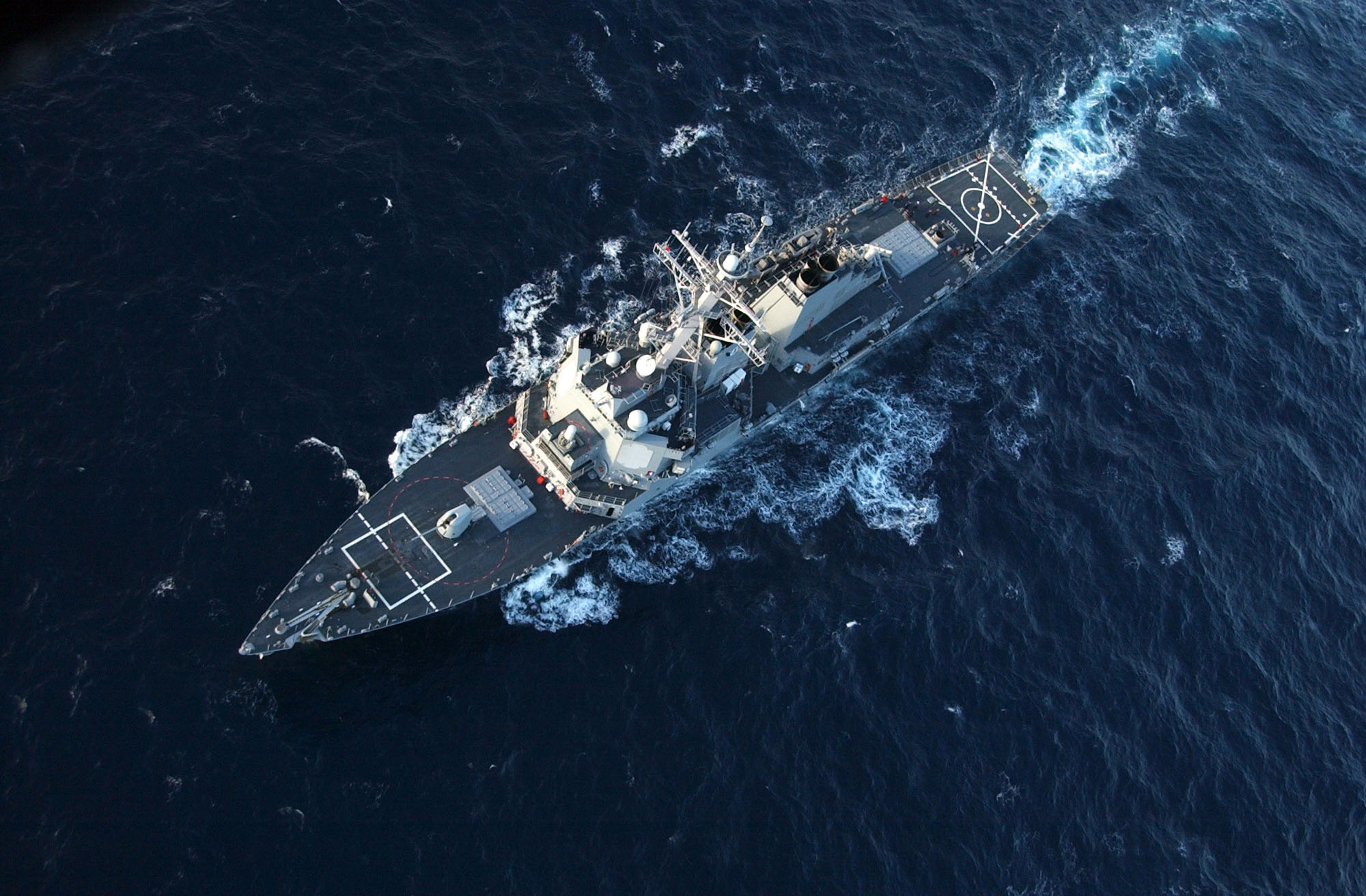 021219-N-3235P-571 Mediterranean Sea – The guided missile destroyer USS Donald Cook (DDG 75) underway in the Mediterranean Sea as part of the USS Harry S. Truman (CVN 75) Carrier Strike Group (CSG). Donald Cook is currently on a six-month deployment in support of Operation Enduring Freedom.